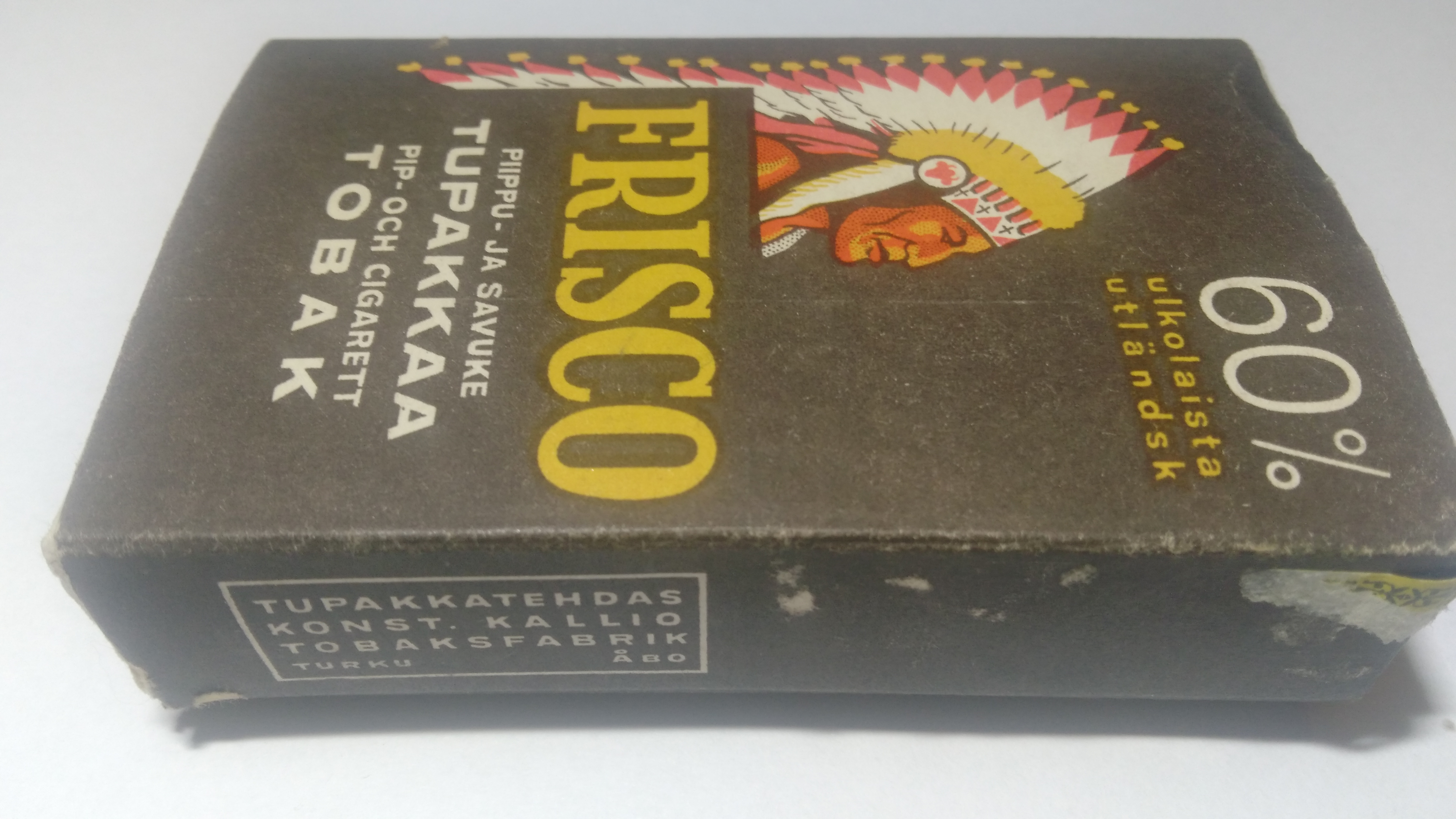 Pipe and cigarette tobacco.Tupakkatehdas Konst. Kallio, Turku.